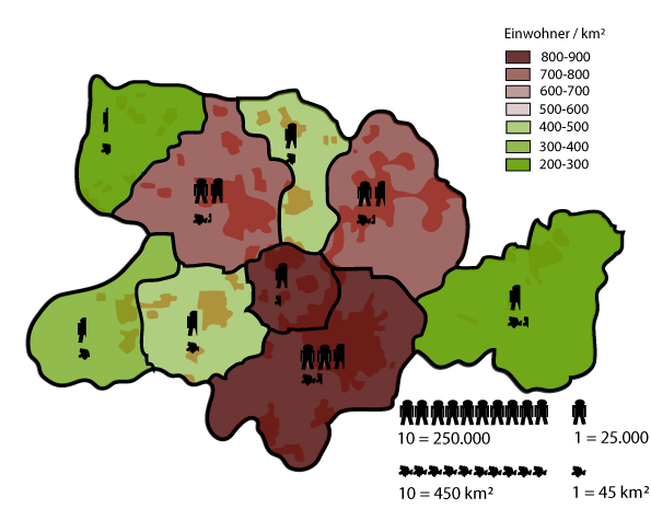 Poulation distribution of Kreis Herford, Germany.